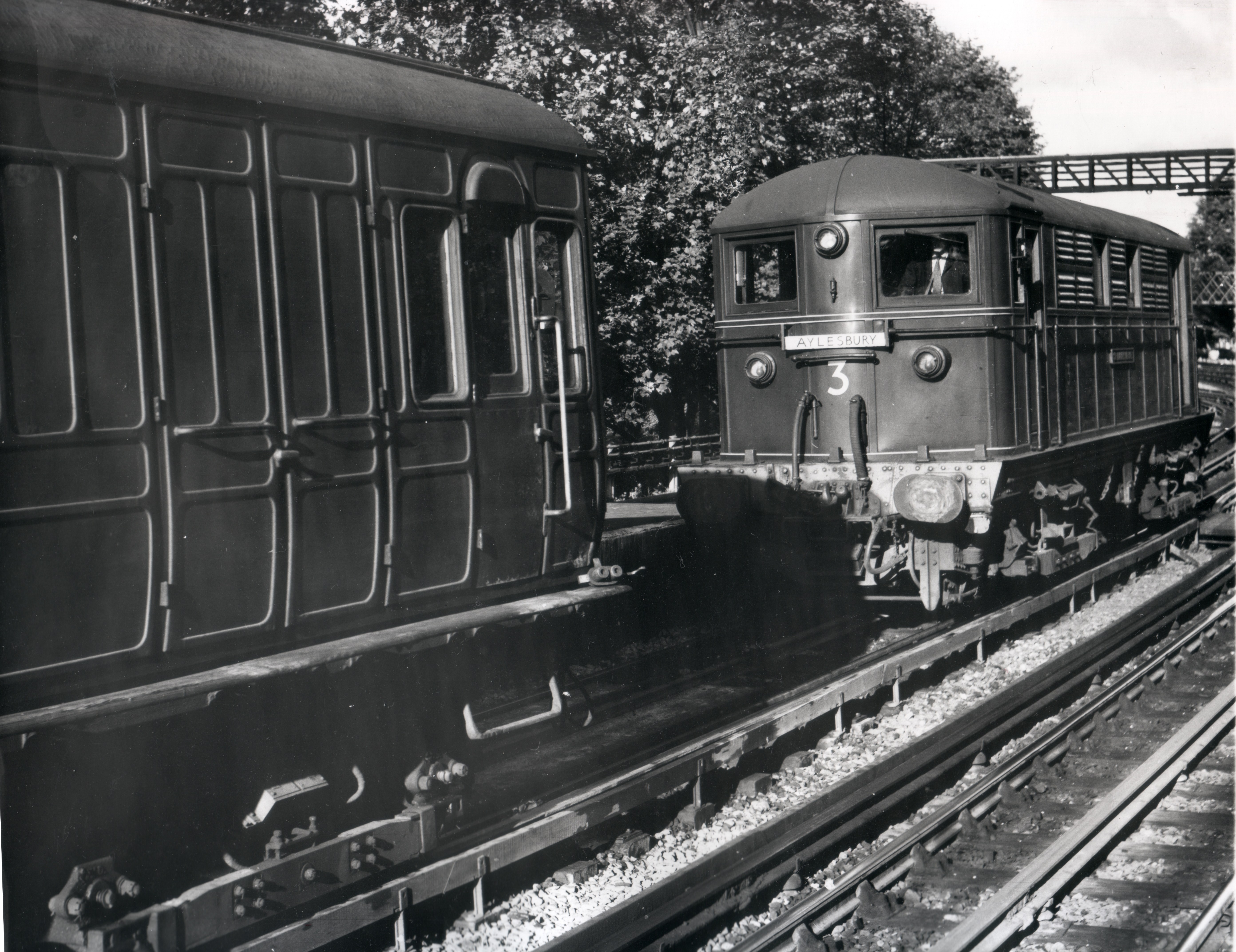 Rickmansworth - electric traction takes over. Metropolitan Railway electric locomotive no. 3 Sir Ralph Verney, built by Metropolitan Vickers in 1922, as running in 1960. Rickmansworth was the changover point. The train has been hauled from Aylesbury by a steam locomotive, an LMS 2-6-4 class 4 tank. The stock is known as Dreadnaught and dates from about 1906. The carriages are chocolate brown and the locomotive crimson with gold lining. Two survive, no. 12, Sarah Siddons is in working order and was altered so that it can run on SR third-rail routes.